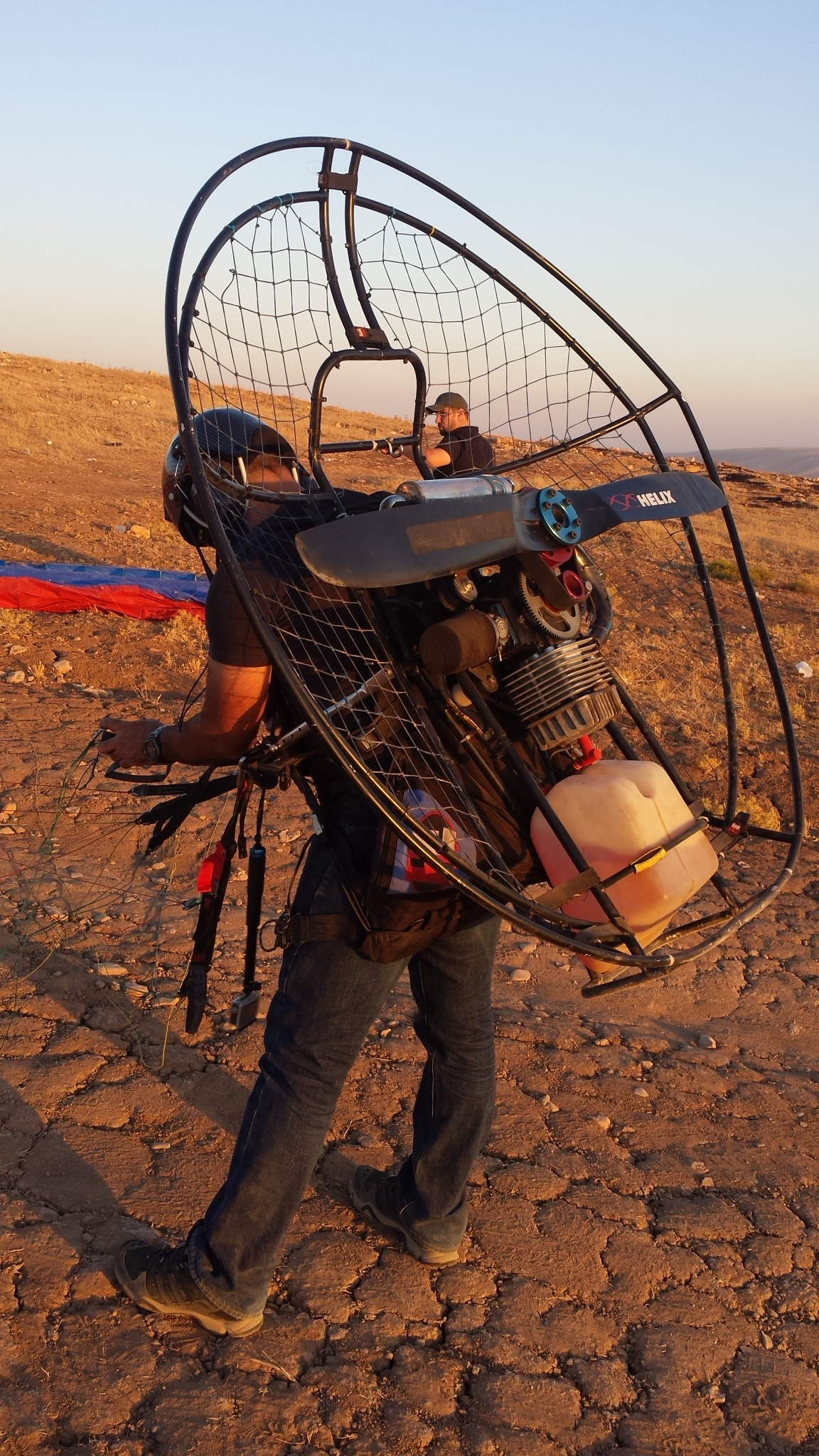 paramotor on Zawa mountain Duhok